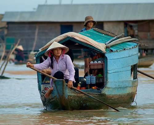 Flotin village near Siem Reap.